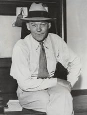 Francis Shoemaker, US Representative from Minnesota